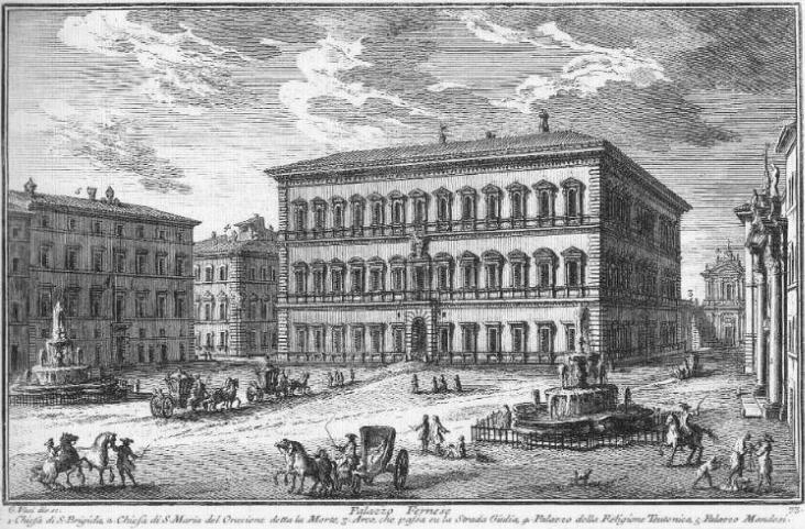 1) S. Brigida; 2) S. Maria dell'Orazione e Morte; 3) Arco di Via Giulia; 4) Palazzo della Religione Teutonica; 5) Palazzo Mandosi.